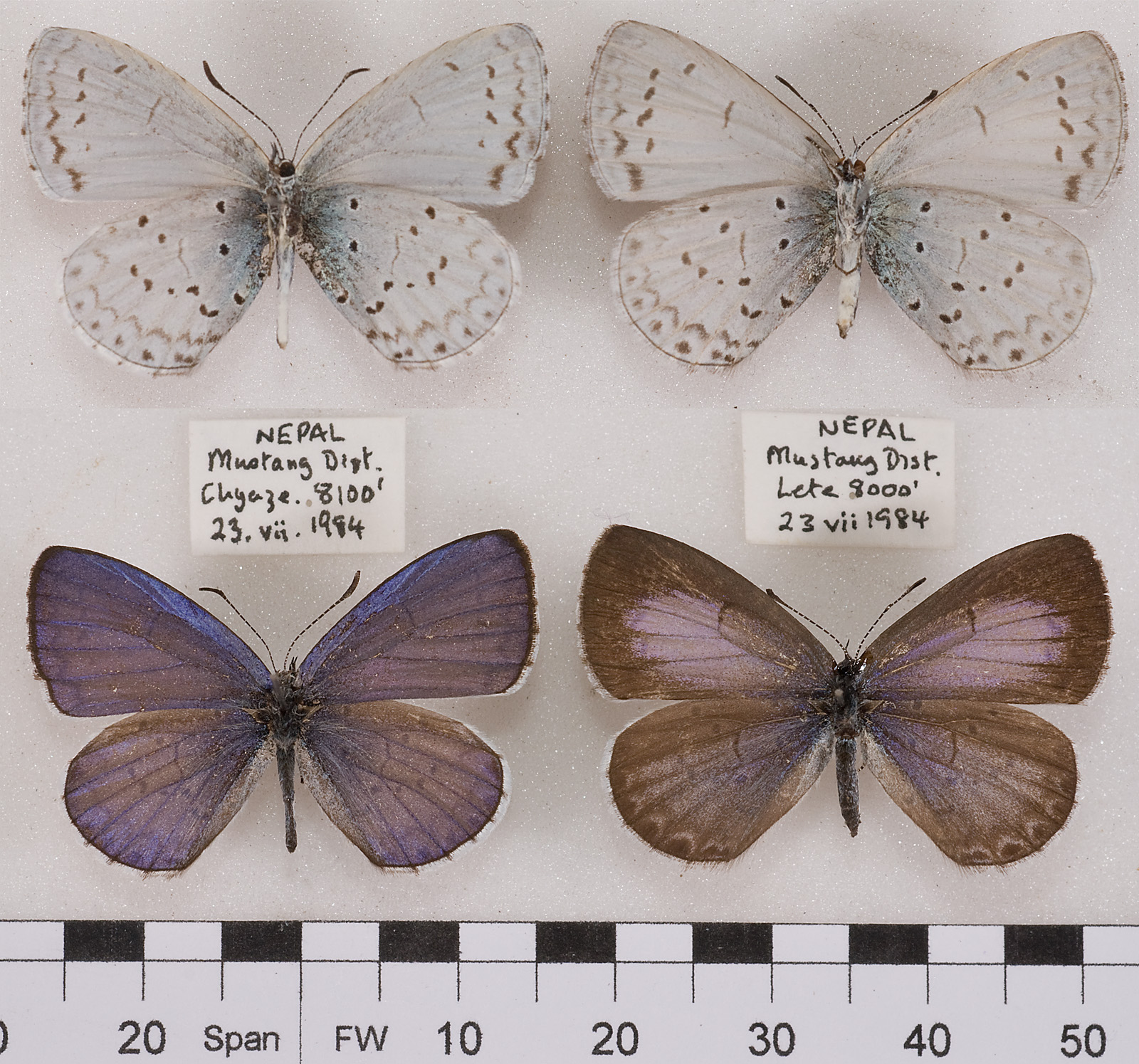 Celastrina huegelii oreoides, male, female, set specimens, Nepal, Alan Cassidy photo